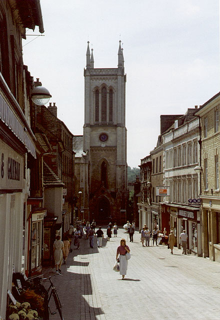 High Street, Stamford